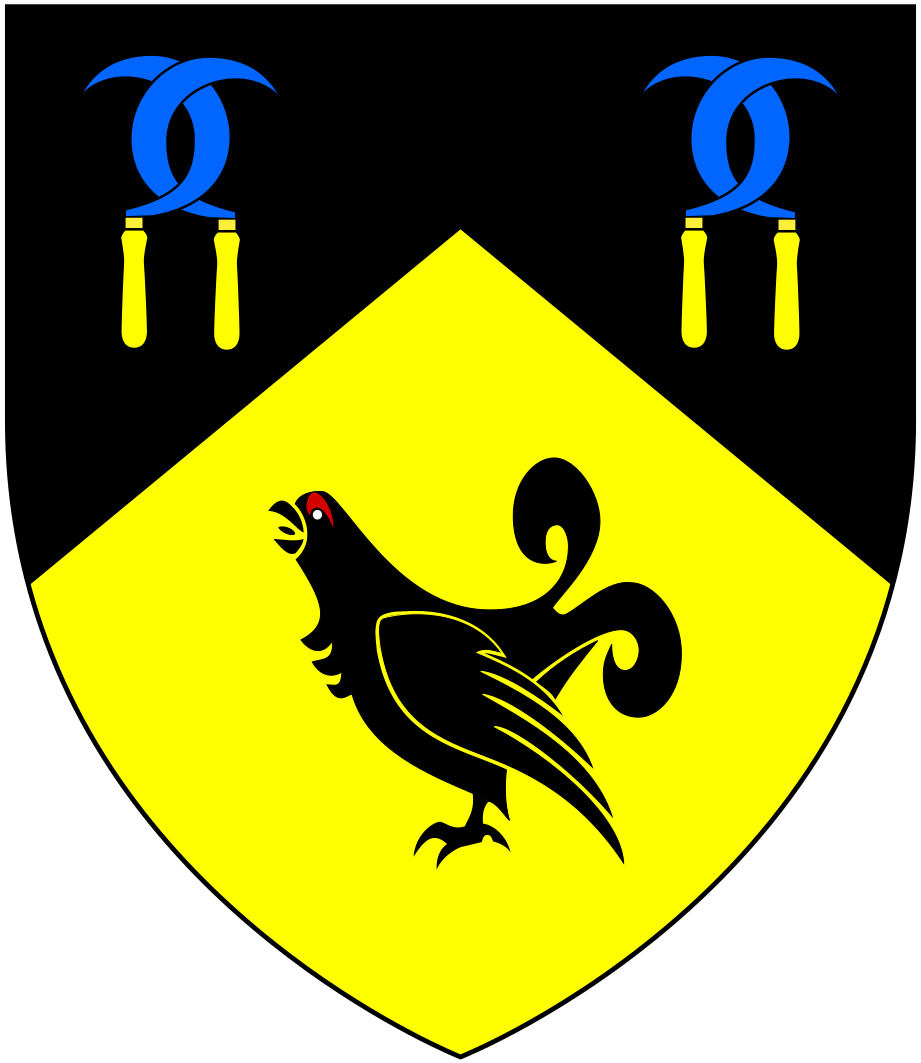 Arms of Hockmore of Buckland Brewer, Devon: Per chevron sable and or, in chief two pairs of reaping hooks endorsed and entwined blades azure handles of the second in base a moorcock of the first combed and wattled gules.(Vivian, Lt.Col. J.L., (Ed.) The Visitations of the County of Devon: Comprising the Heralds' Visitations of 1531, 1564 & 1620, Exeter, 1895, p.471)